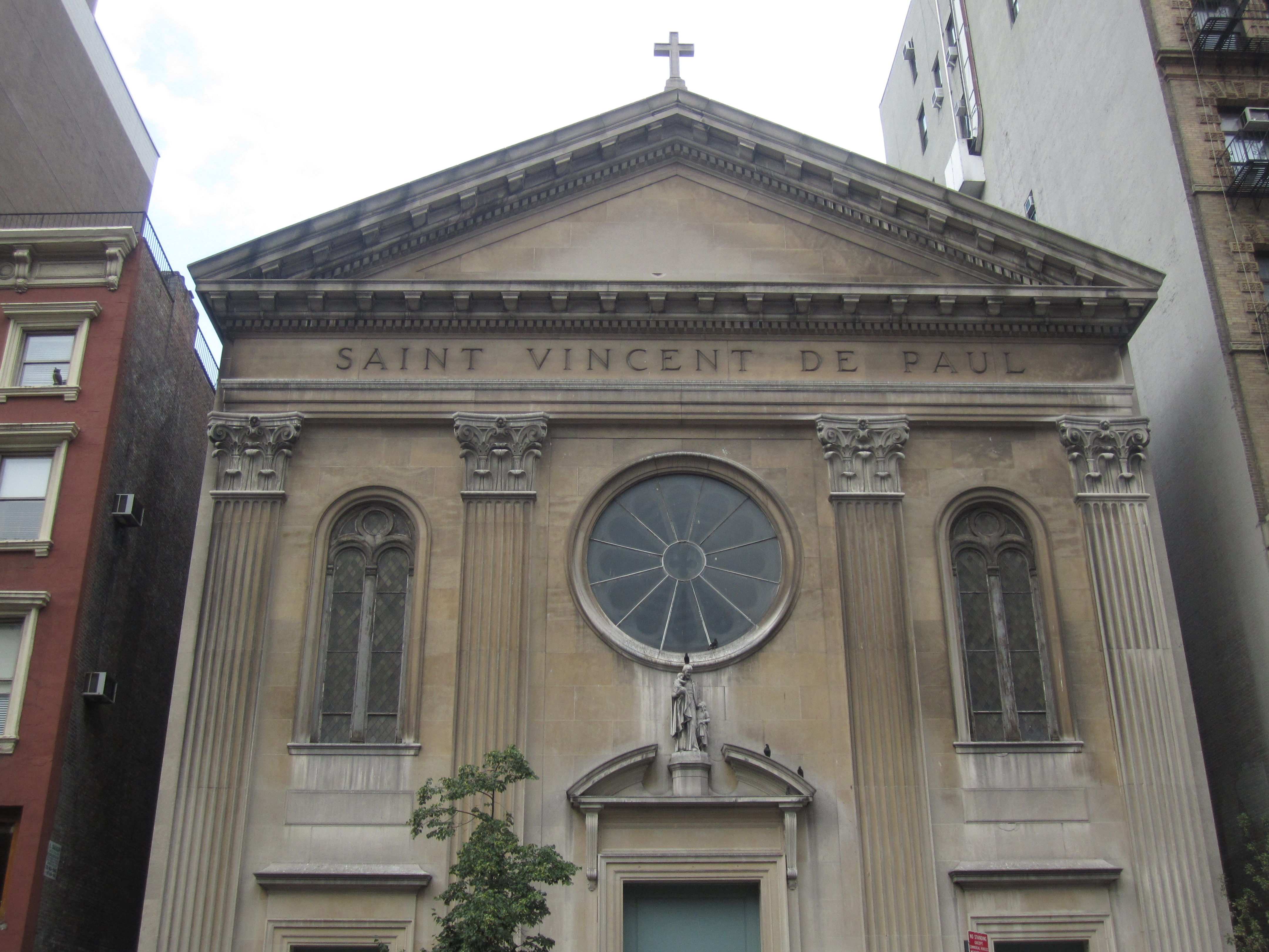 I took photo with Canon camera of St. Vincent de Paul Catholic Church on West 24th Street Manhattan.